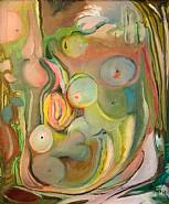 The photograph of this painting by J. Bernal, my father, was taken by me. It is part of my archived documents of his artworks. It also appears in his Artist Works Catalogue of Artnet. I, Lucrecia Bernal-Schneider, took the photograph of this painting by José Bernal -my father- at his art studio a few years ago to compile an archive of his artworks. This painting is in Bernal's personal collection. It may also be seen in his Artnet Artist Works Catalogue (AWC): where I sent it to Artnet's AWC Account Executive to upload on to his catalogue.